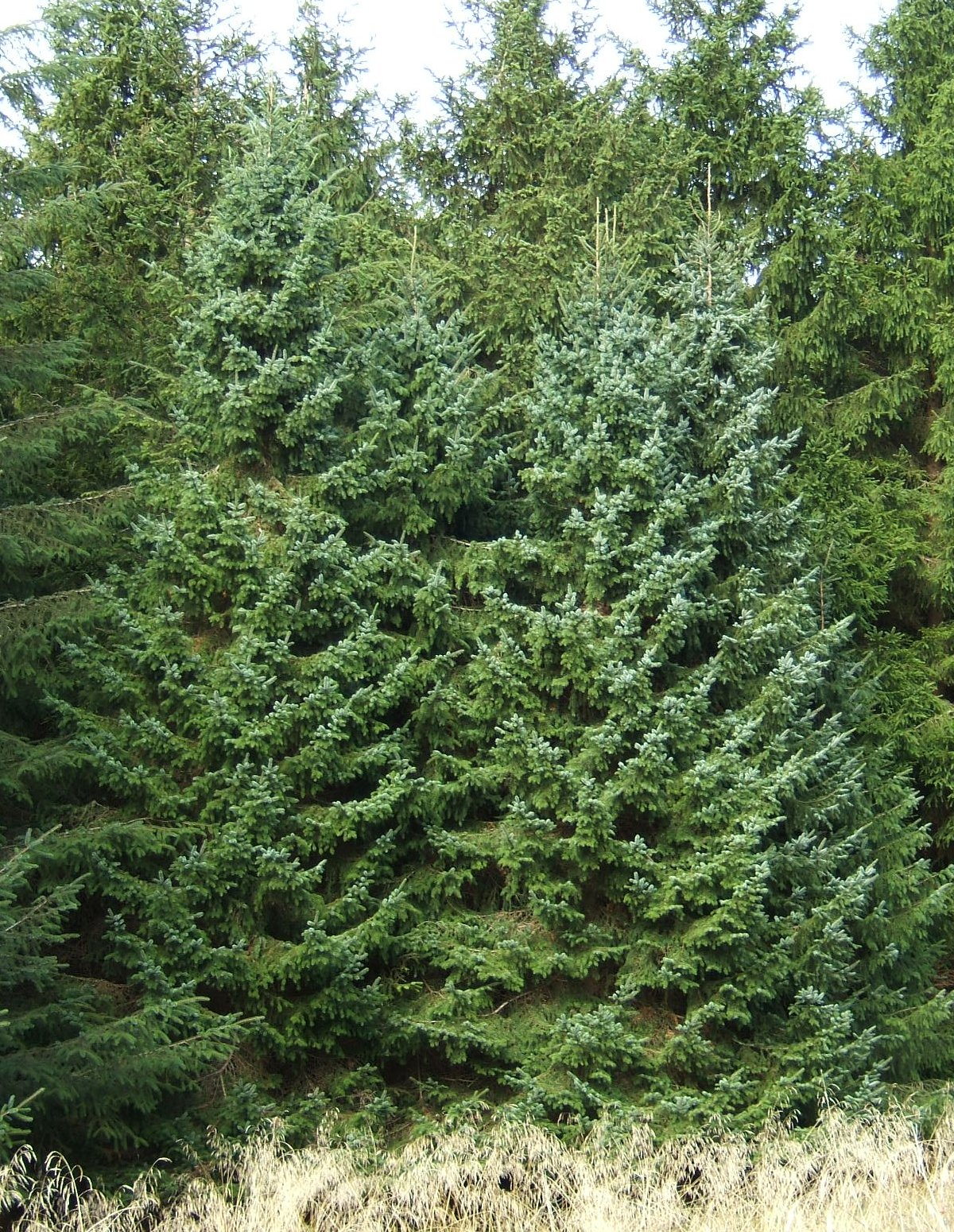 Picea omorika group in forestry plantation, Kielder, Northumberland/Scotland border, UK; Picea sitchensis behind